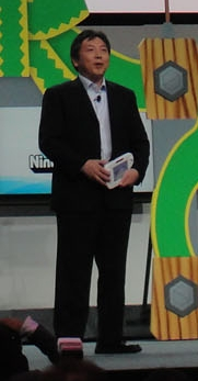 Animal Crossing, Wii Sports and Wii U producer Katsuya Eguchi announced Nintendo Land for Wii U at the E3 2012 Nintendo press conference.